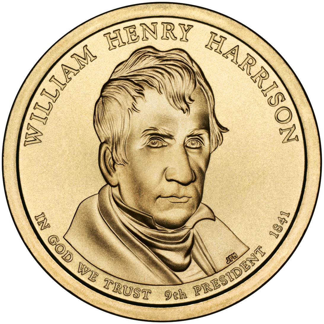 Presidential $1 Coin Program coin for William Henry Harrison. Obverse.